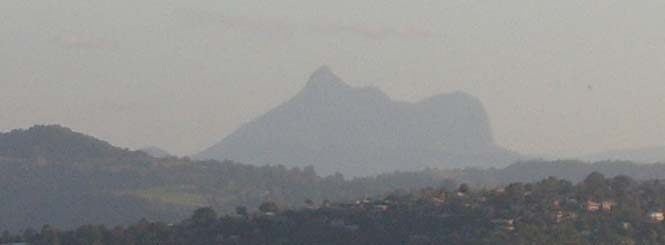 Mt. Warning, Murwillumbah, NSW, Australia, seen from Tweed River